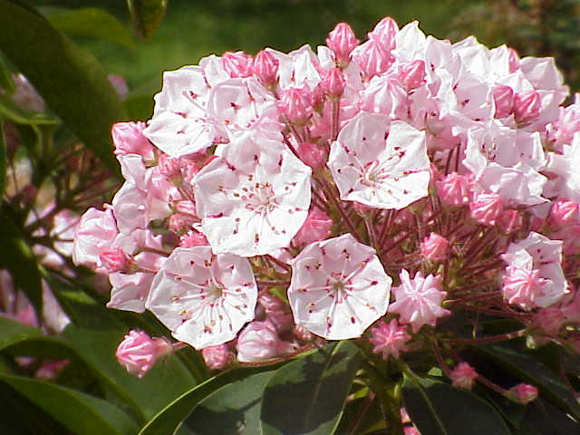 Species: Kalmia latifolia Family: Ericaceae Image No. 3